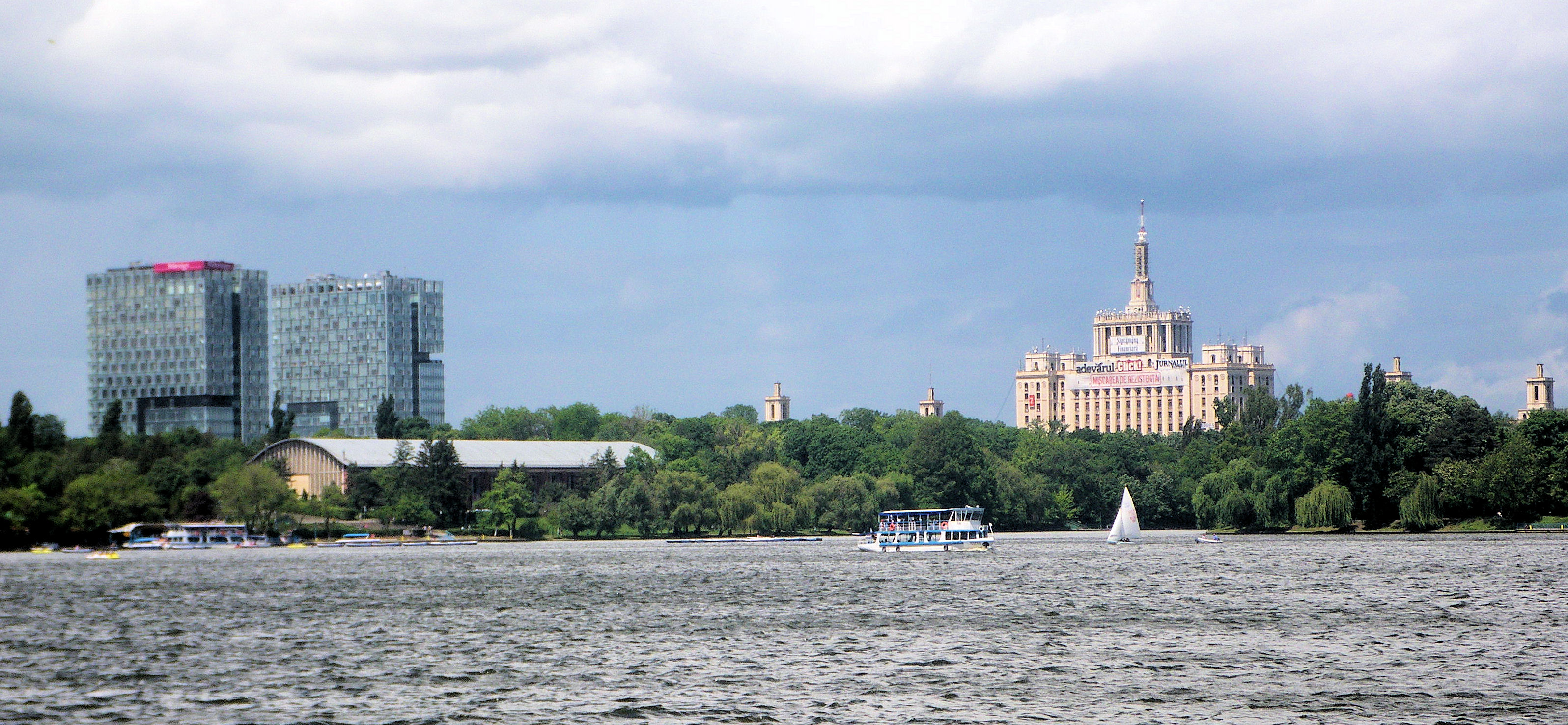 North Gate Towers in bucharest